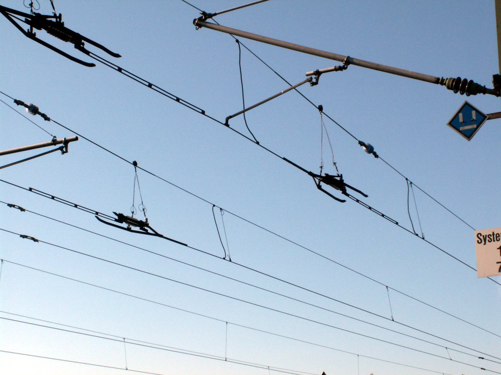 Change of voltage for the Tram-Train Karlsruhe